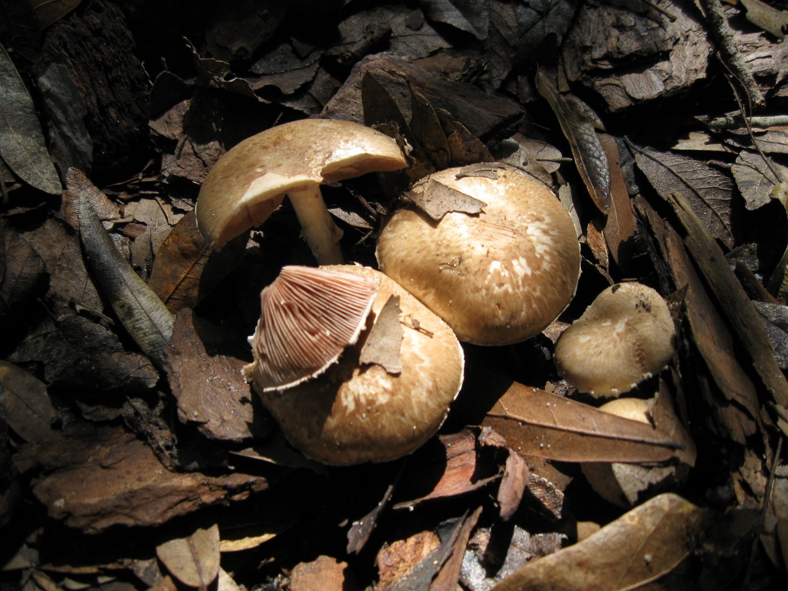 A collection of Agaricus semotus specimens growing in my backyard.